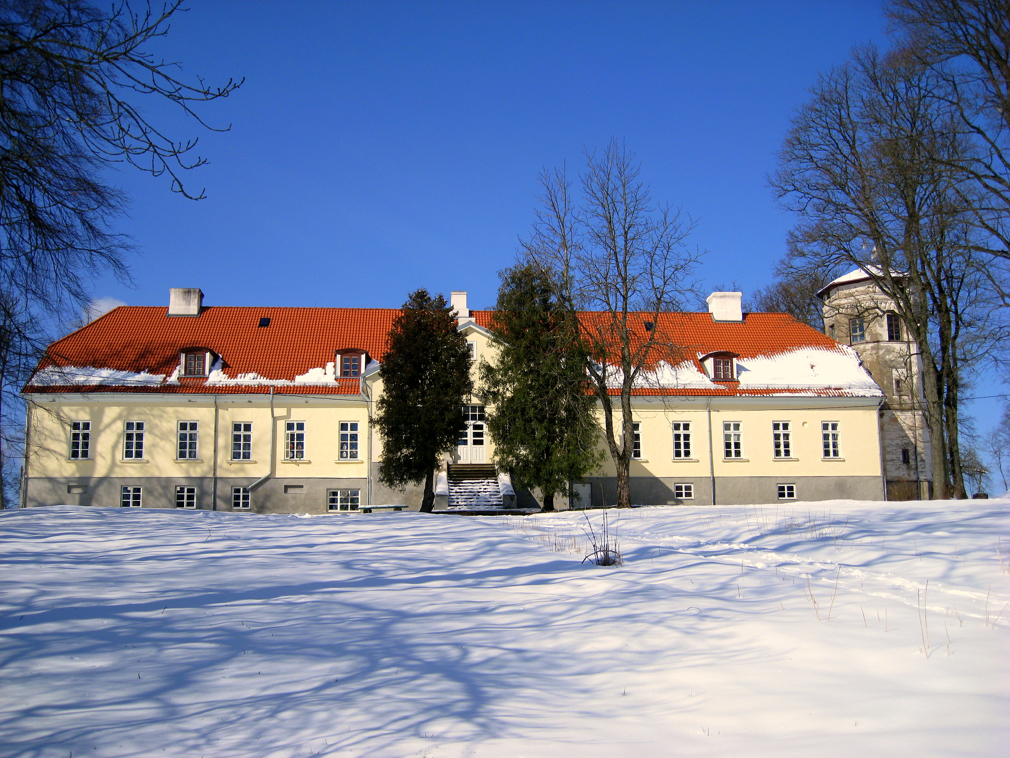 Apriķi ManorLatviešu: Apriķu muižas pils